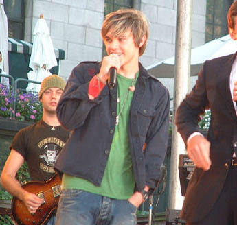 Photo of actor/singer Jesse McCartney